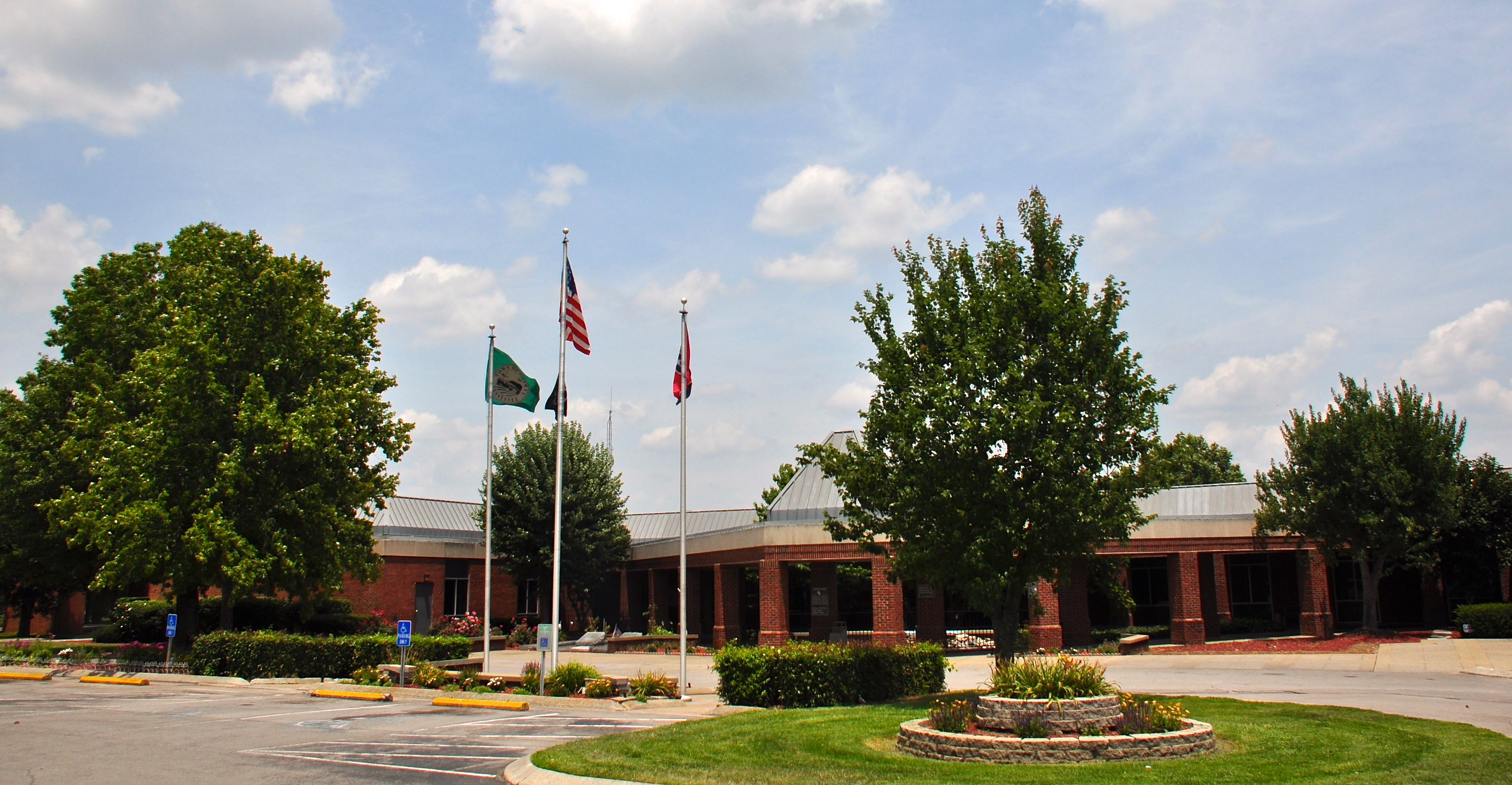 The town hall of Smyrna, Rutherford County, Tennessee. Located at 315 S Lowry Street.